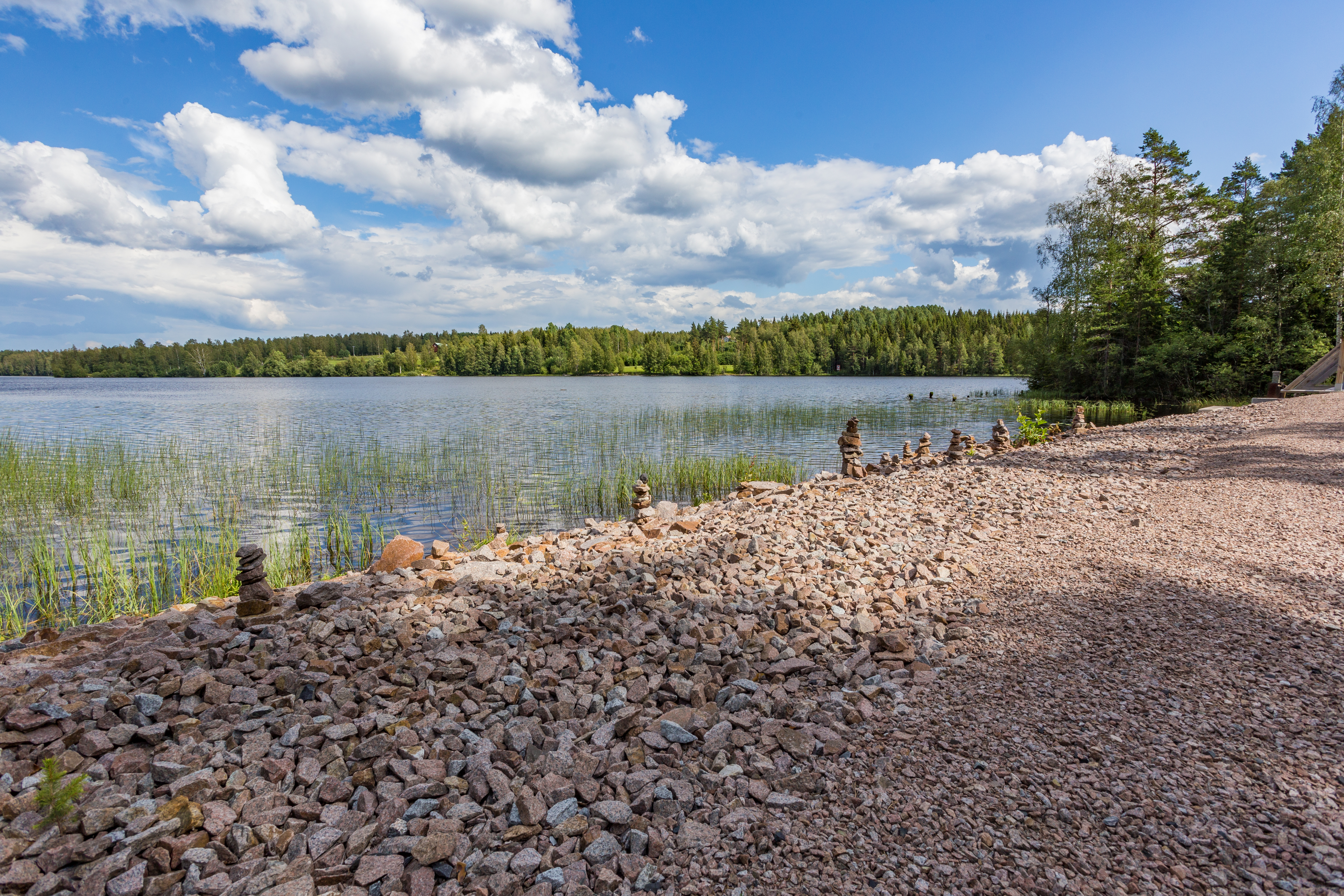 Lake Stora Jälken, Garpenberg, Hedemora municipality, Dalarna county, Sweden